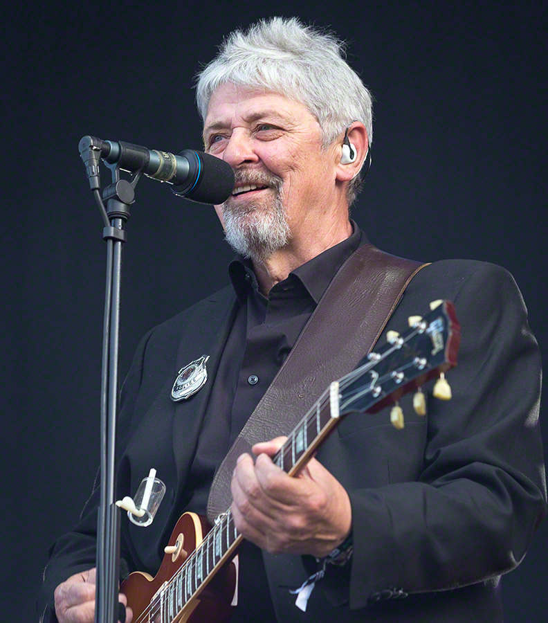 Gunnar Pedersen performs with Åge Aleksandersen and Sambandet at the main stage during Stavernfestivalen in Stavern on 08 July 2016. Lineup:Åge Aleksandersen (guitar / vocal)Skjalg Raaen (guitar)Steinar Krokstad (drums)Morten Skaget (bass)Gunnar Pedersen (guitar)Terje Tranaas (keyboard)Bjørn Røstad (baritone saxophone)Unidentified (trumpet)Unidentified (trombone)Unidentified (tenor saxophone)